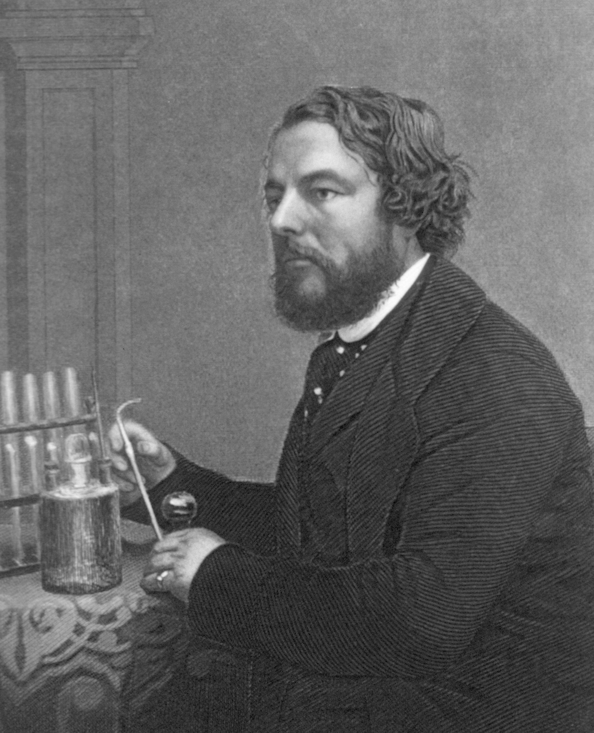 James Sheridan Muspratt (8 March 1821 – 3 February 1871) Format: Still image Genre(s): Portraits Abstract: Seated, left pose, with instruments.